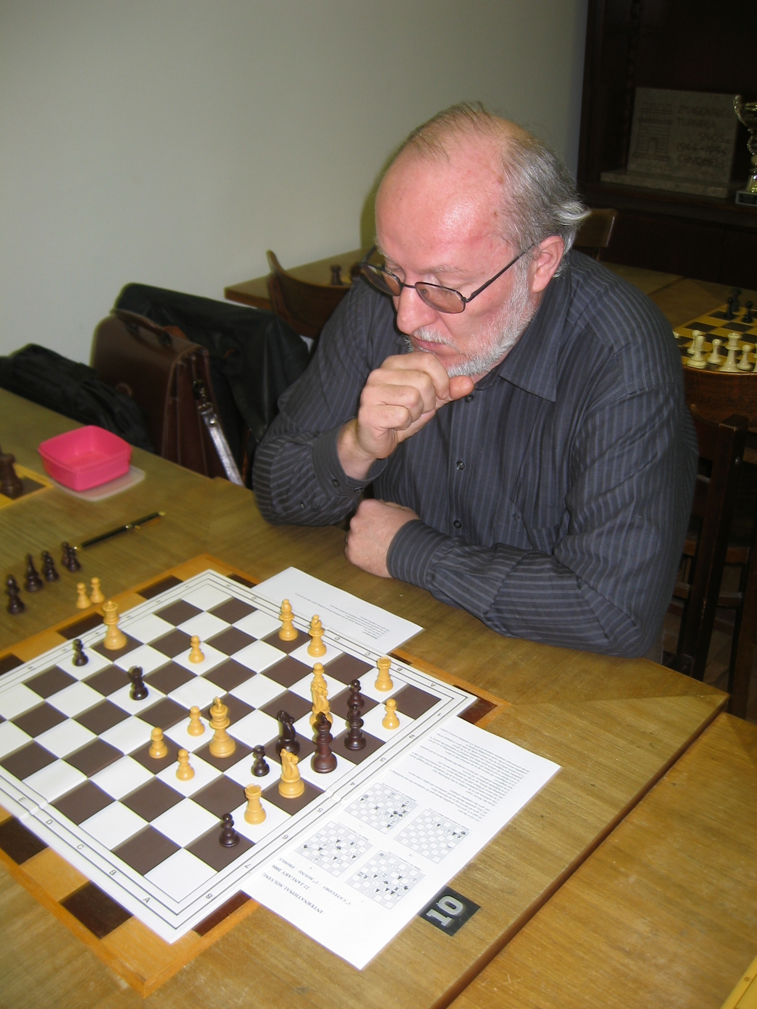 Marko Klasinc, Slovene Chess composer